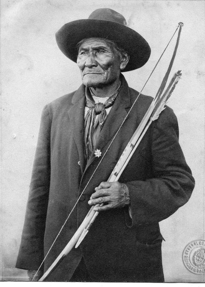 Portrait of Apache chief Geronimo with his bow and arrow. The photo is part of the AGN collection, inventory #361903.